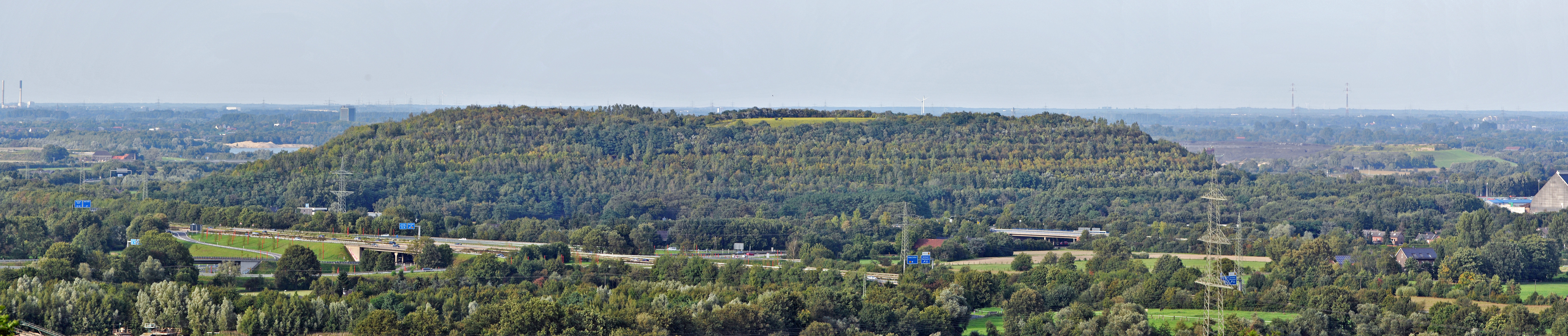 Panorama view over the south side of the spoil tip Pattberg (German: Halde Pattberg), seen from the Halde Norddeutschland (German for spoil tip northern Germany).